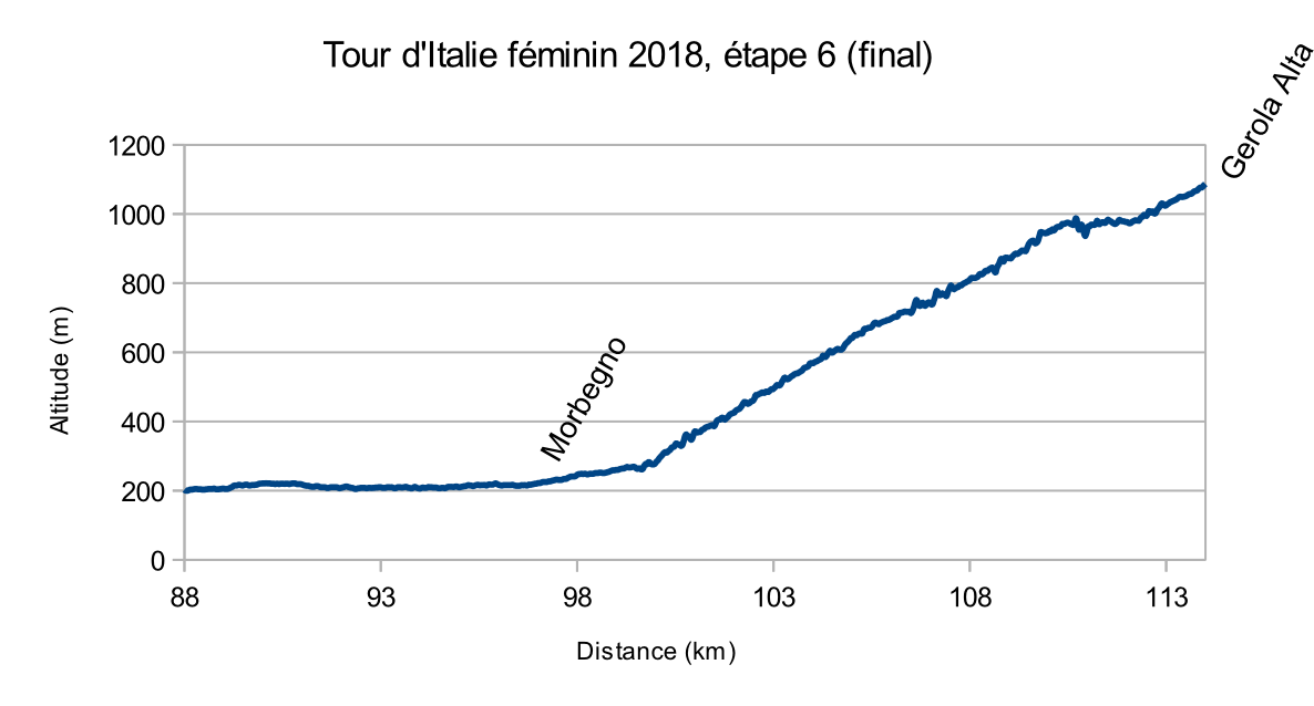 Profile of stage 6 of Giro donne 2018.